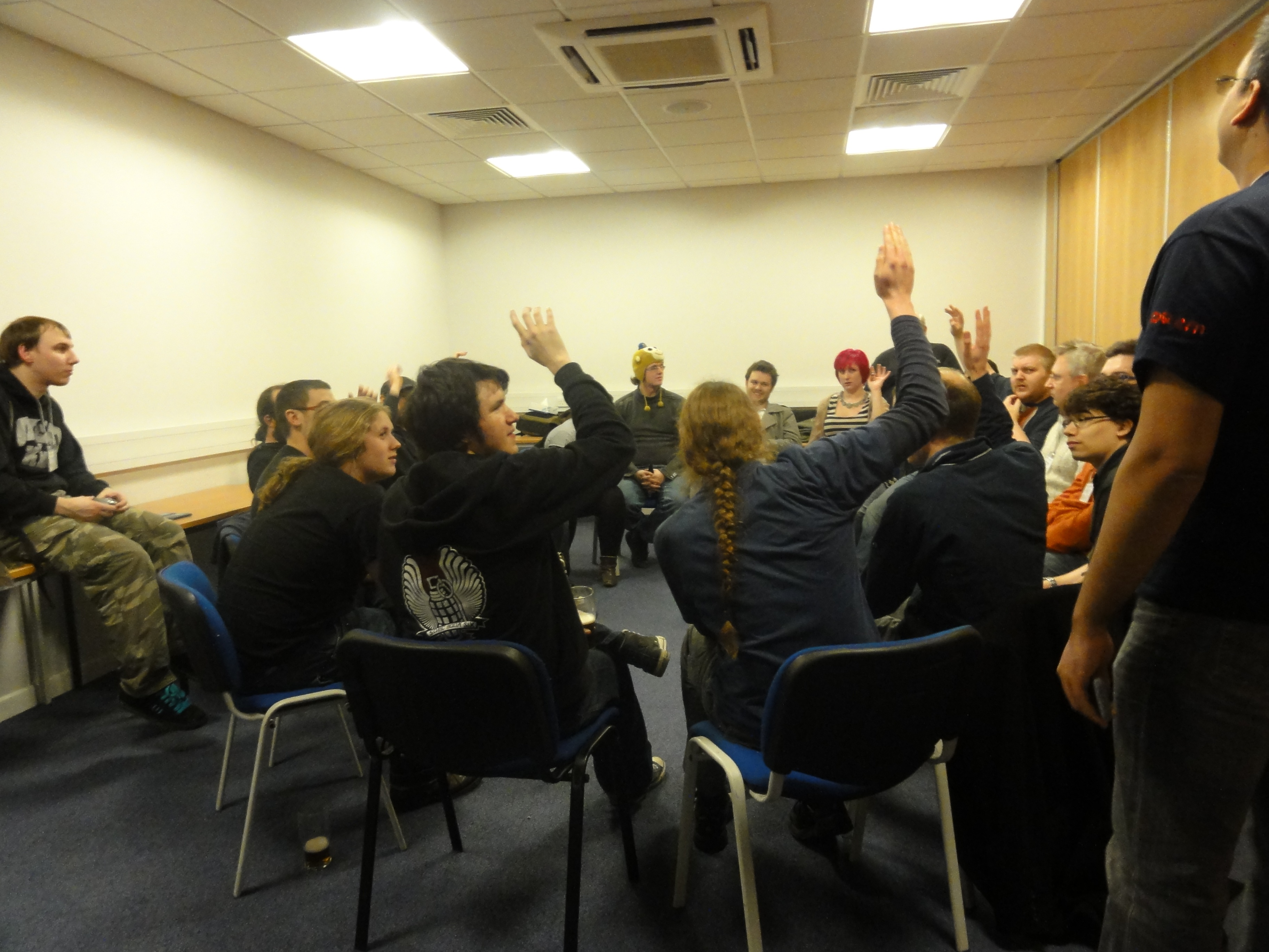 BarCamp Bournemouth 3 attendees playing Werewolf